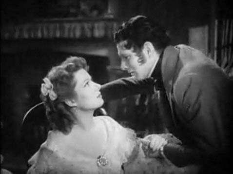 Cropped screenshot of Greer Garson and Laurence Olivier from the trailer for the film Pride and Prejudice (1940).